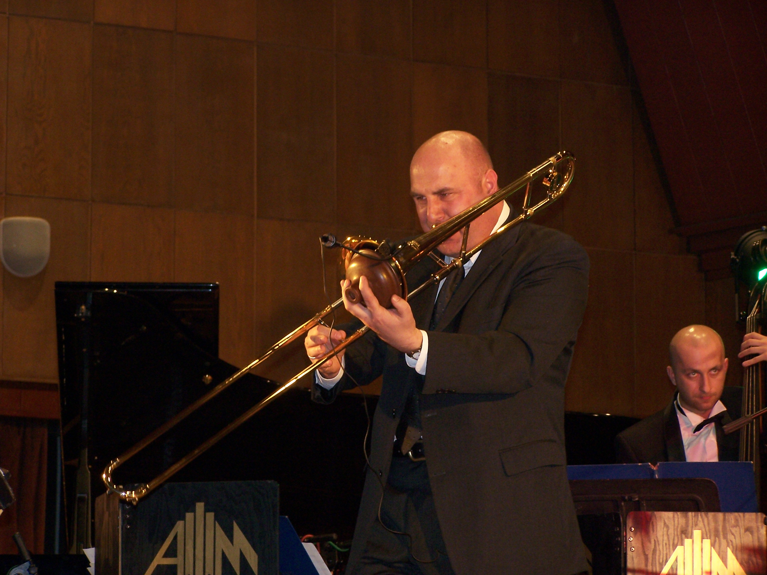 Grzegorz Nagórski playing trombone. Photo taken on 1st Silesian Jazz Festiwal.